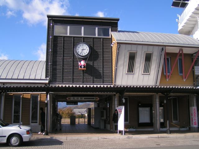 Menda Station (now Asagiri Station) entrance, 18 December 2005